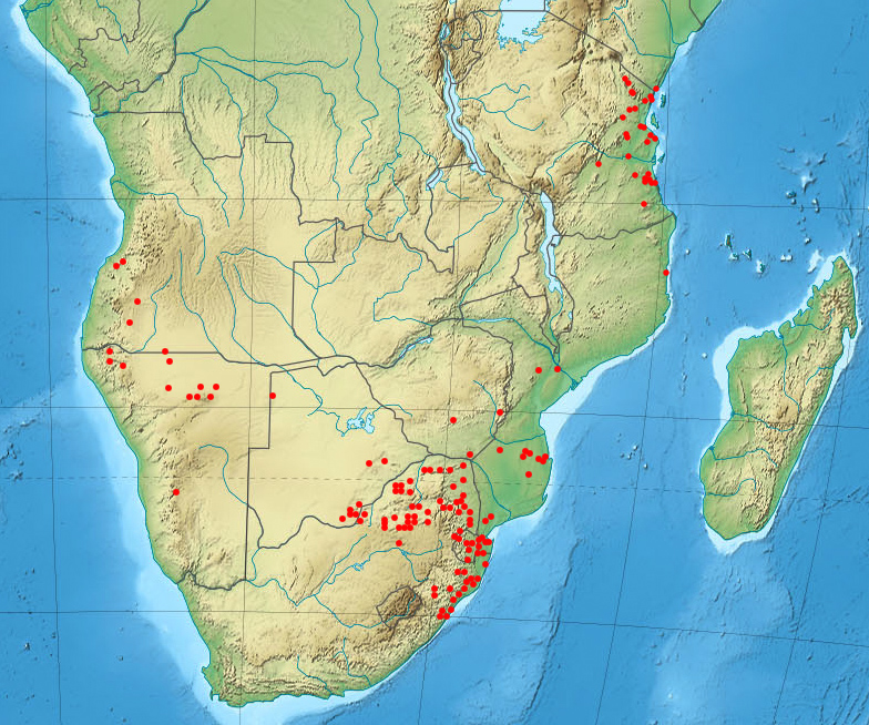 Distribution map of Spirostachys africana